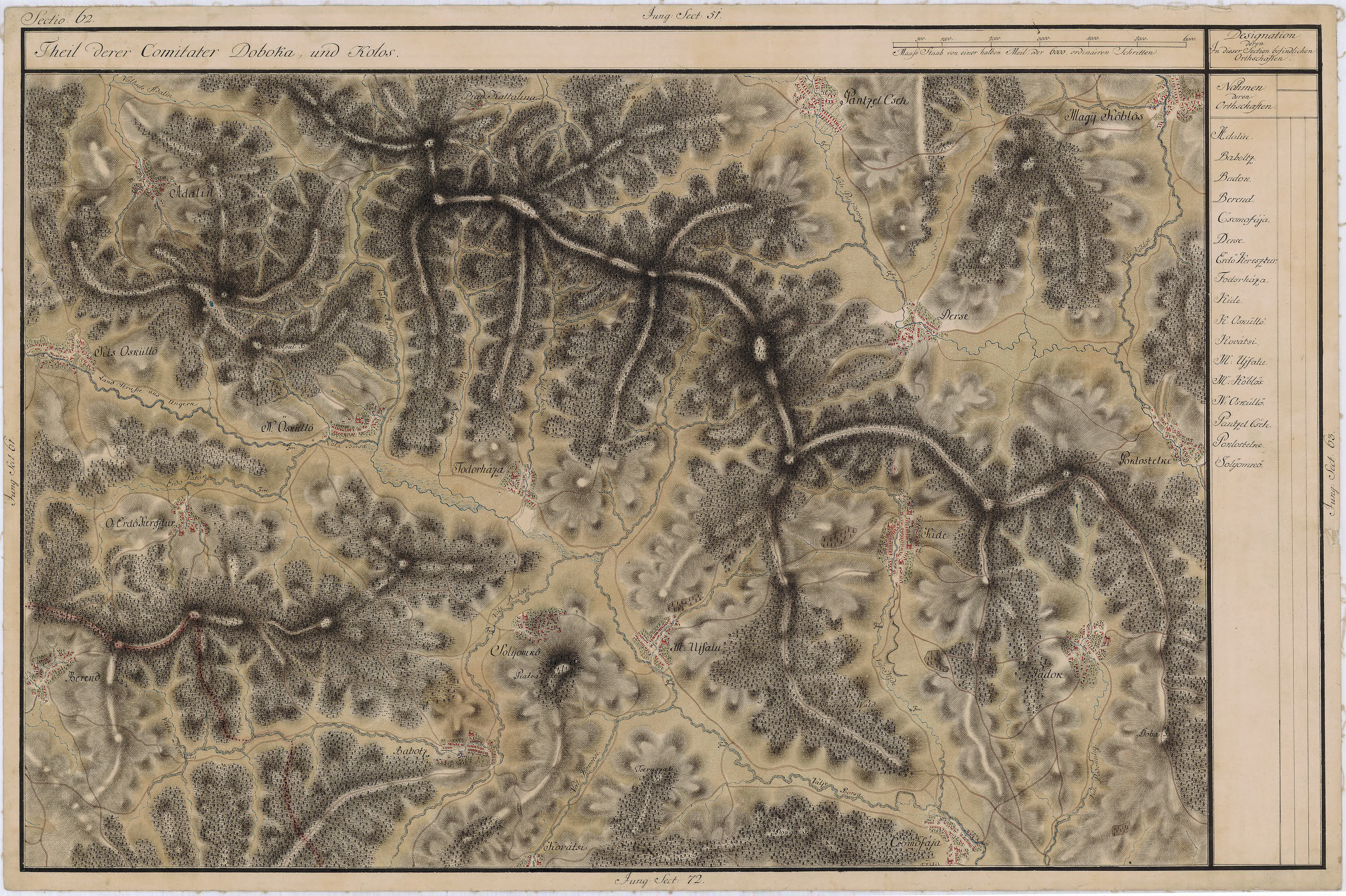 Grand Duchy of Transylvania, 1769-1773. Josephinische Landaufnahme pg.062